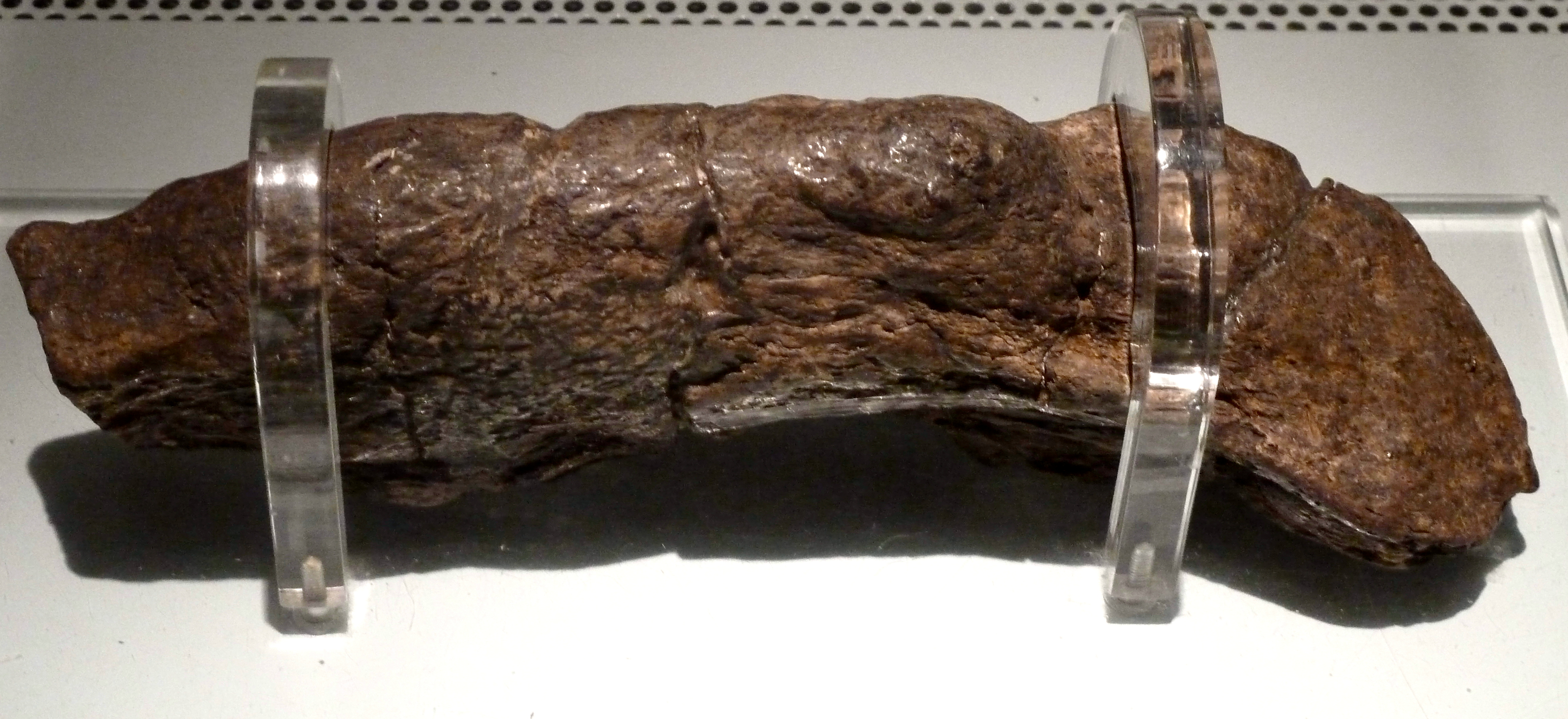 The Lloyds Bank coprolite: fossilised human faeces dug up from a Viking site at Coppergate, York, England by archaeologists. It contains pollen grains, cereal bran, and many eggs of whipworm and maw-worm (intestinal parasites). It is on display at the Jorvik Centre in York.